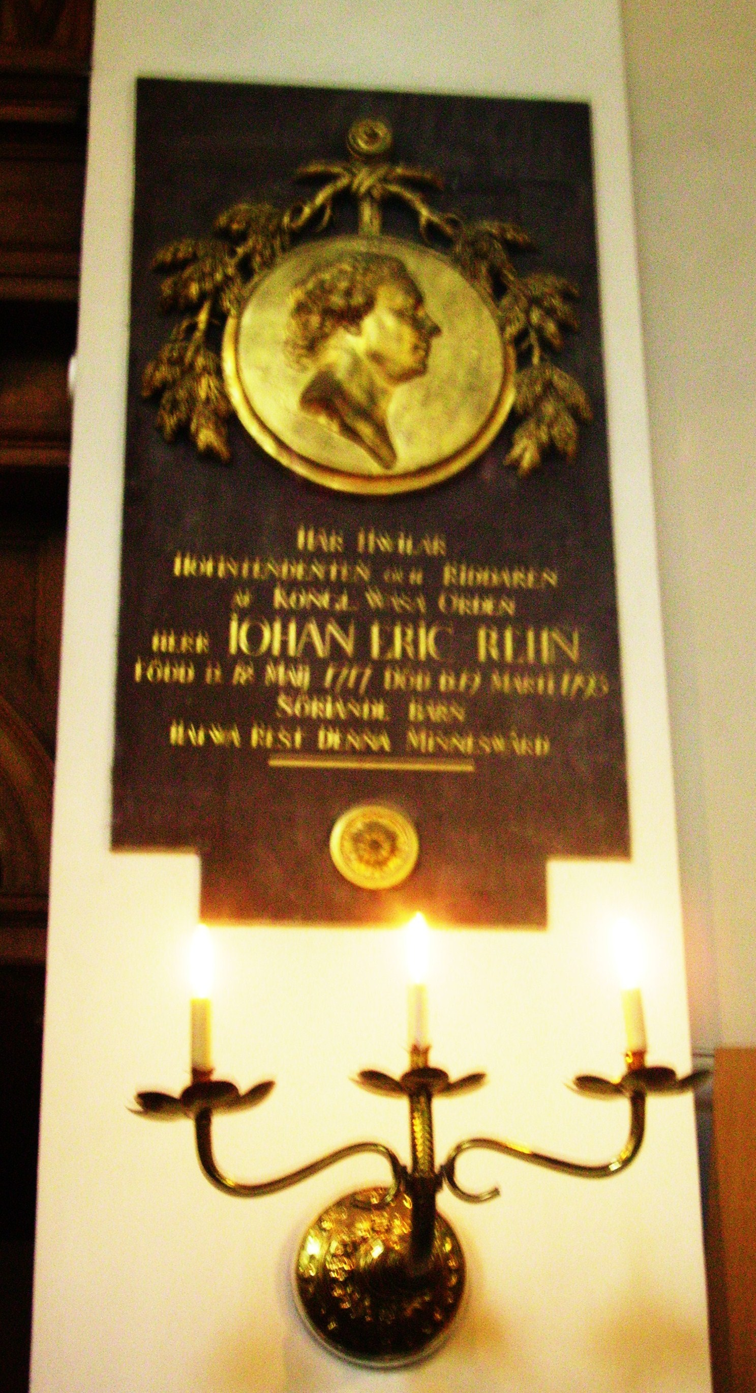 Picture of Jean Rehns grave at Klara church Stockholm